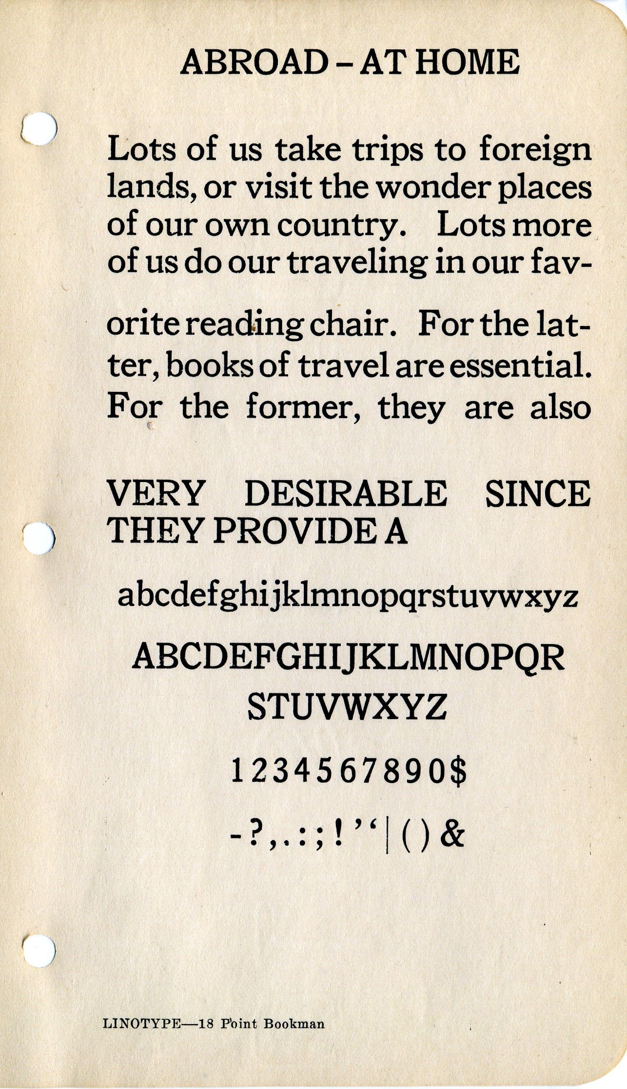 From Daily Type Specimen